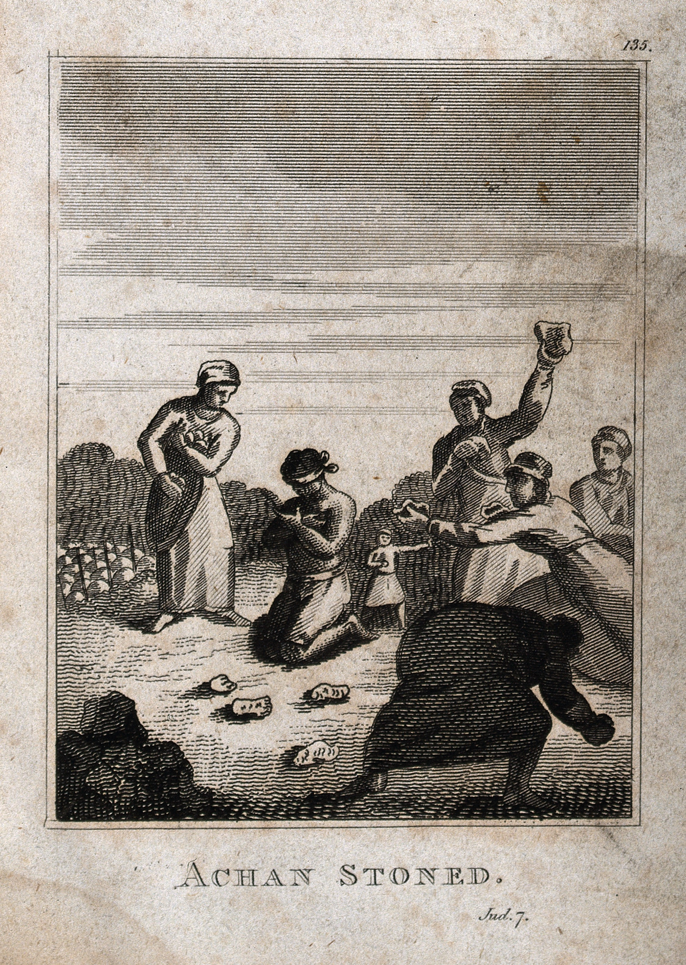 Achan is stoned to death for stealing the spoils of the fall of Jericho. Line engraving. Iconographic Collections Keywords: Achan